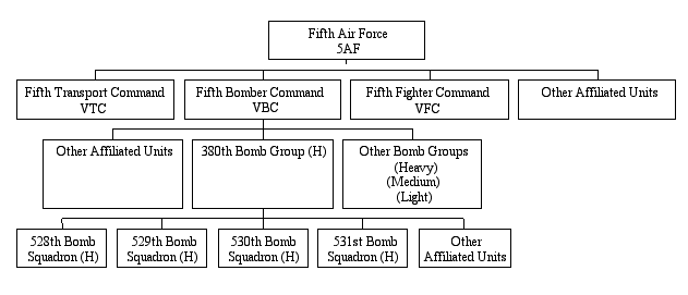 Structure of the 5th Air Force and 38th